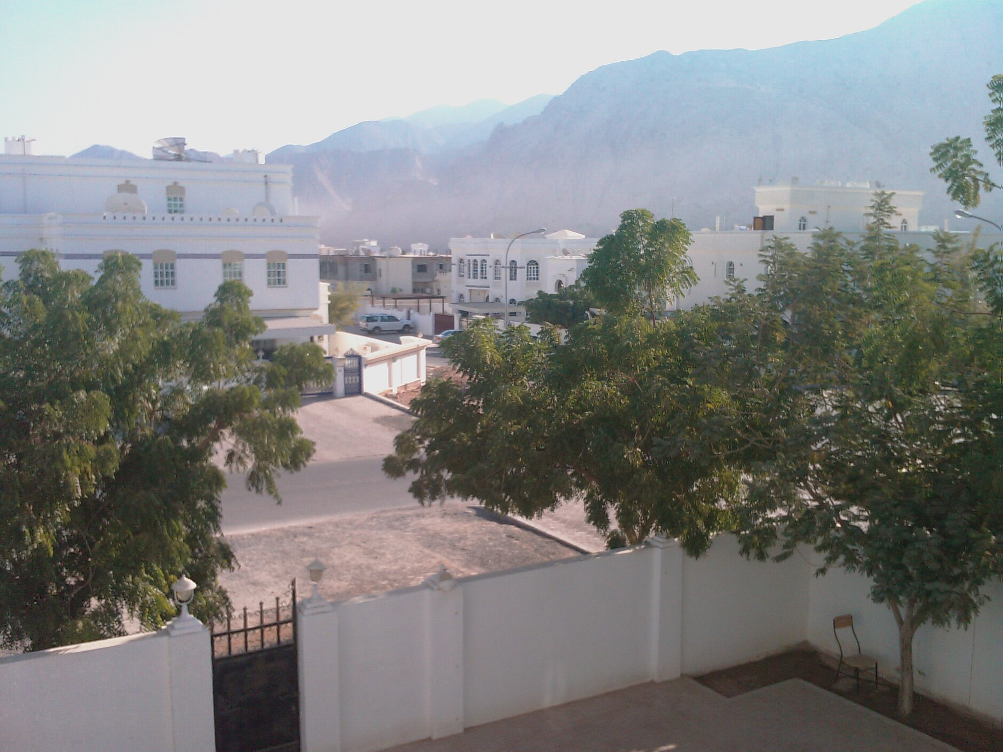 A Neighbourhood in Baushar